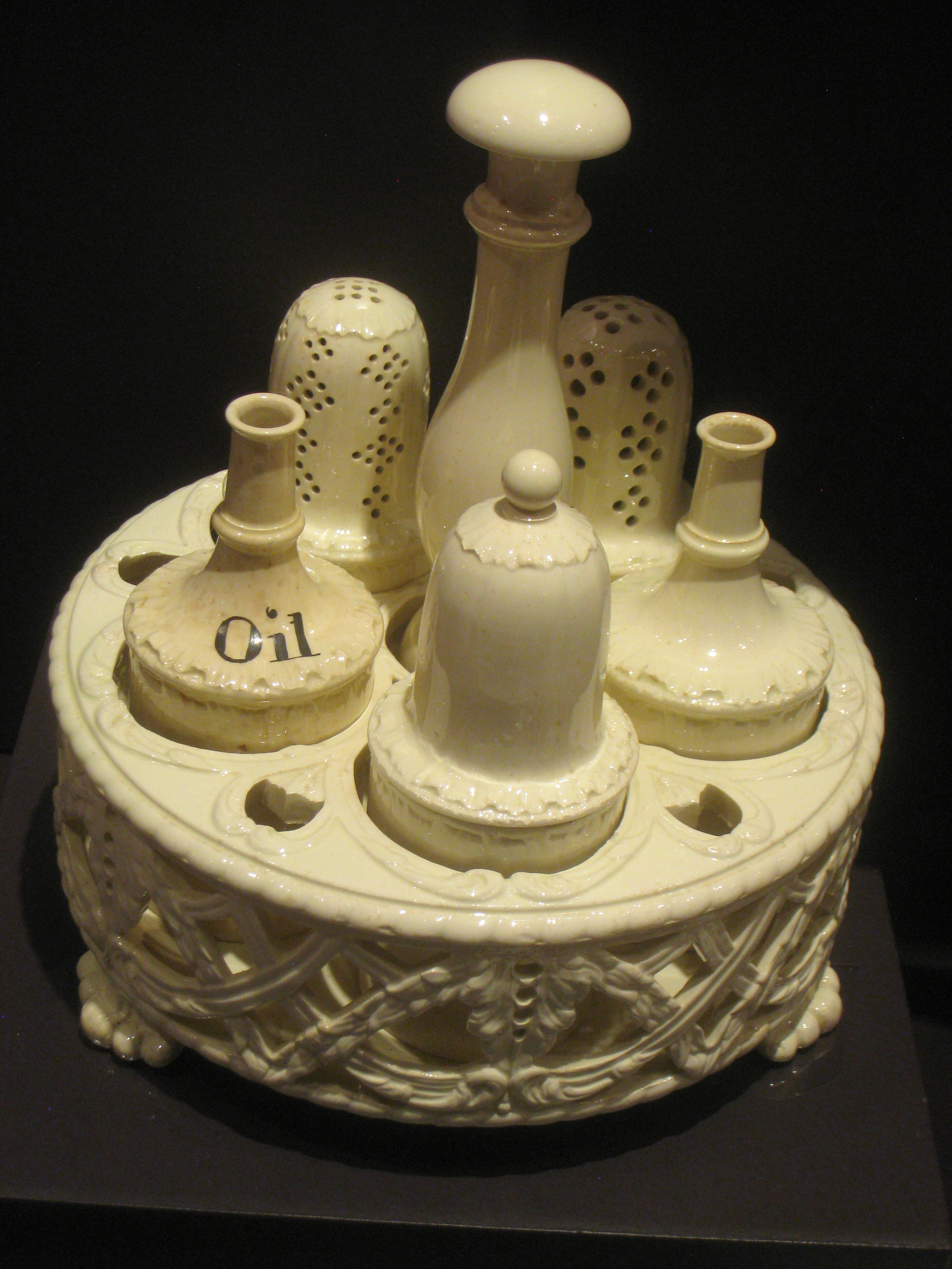 Cruet set, earthenware; Josiah Wedgwood, 1785-1800. Pottery exhibited in the DAR Museum, National Society Daughters of the American Revolution, 1776 D Street NW, Washington, DC, USA.